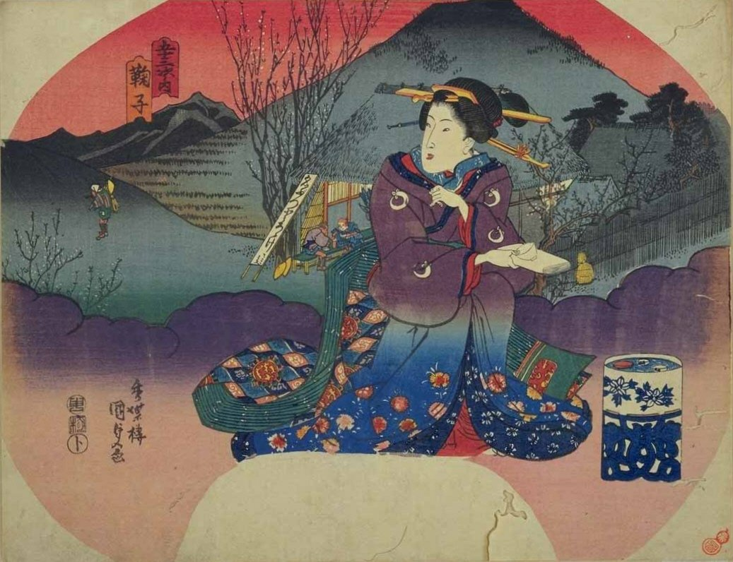 Fan print of the series „The 53 Stations“, station Maruko, publisher Enshūya Matabei, 1836.